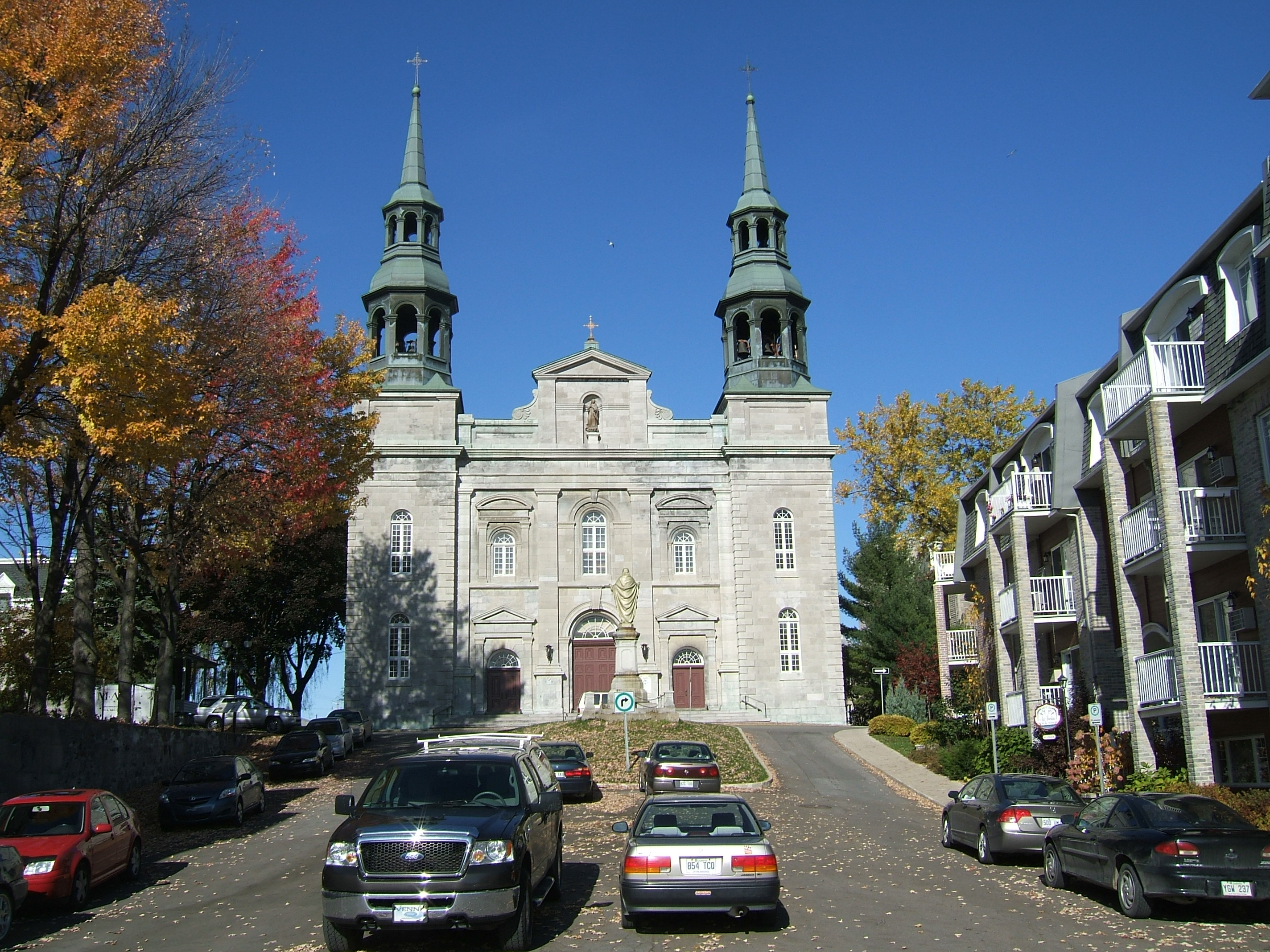 Church at L'Assomption, Québec